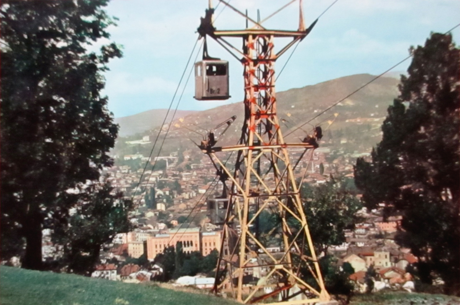 A part of the cable car transport system just above the Bosnian Eastern railway